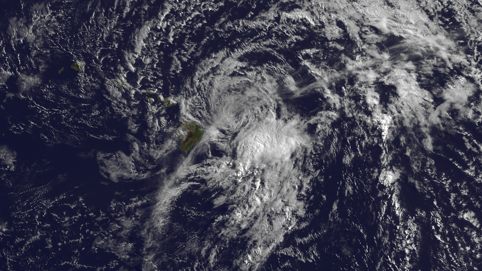 High-resolution visible satellite imagery of a weakening Tropical Storm Flossie passing just north of Hawaii on July 29, 2013.